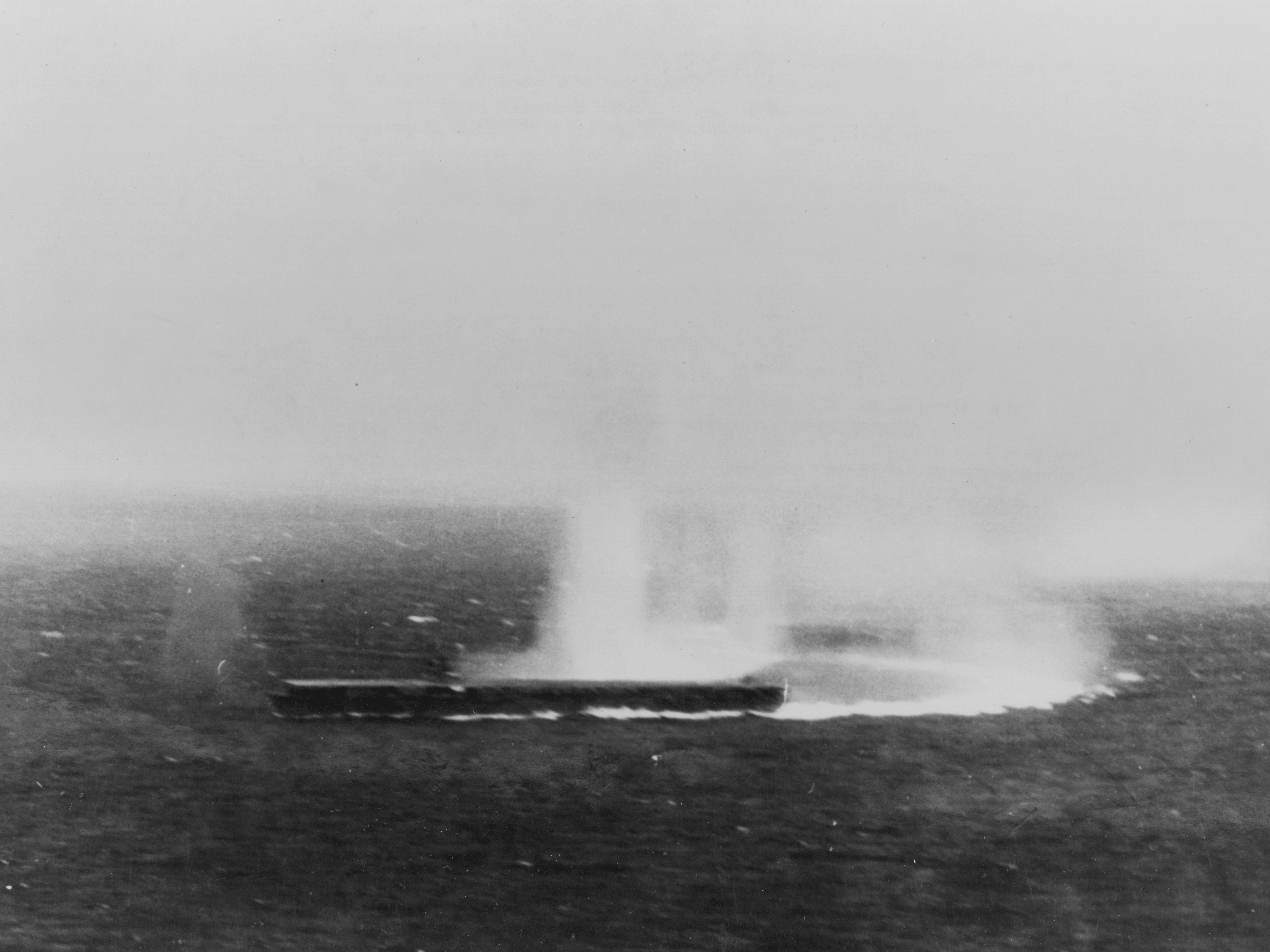 The Japanese aircraft carrier Shōkaku under attack by USS Yorktown (CV-5) planes, during the morning of 8 May 1942. Splashes from dive bombers' near misses are visible off the ship's starboard side as she makes a sharp turn to the right.